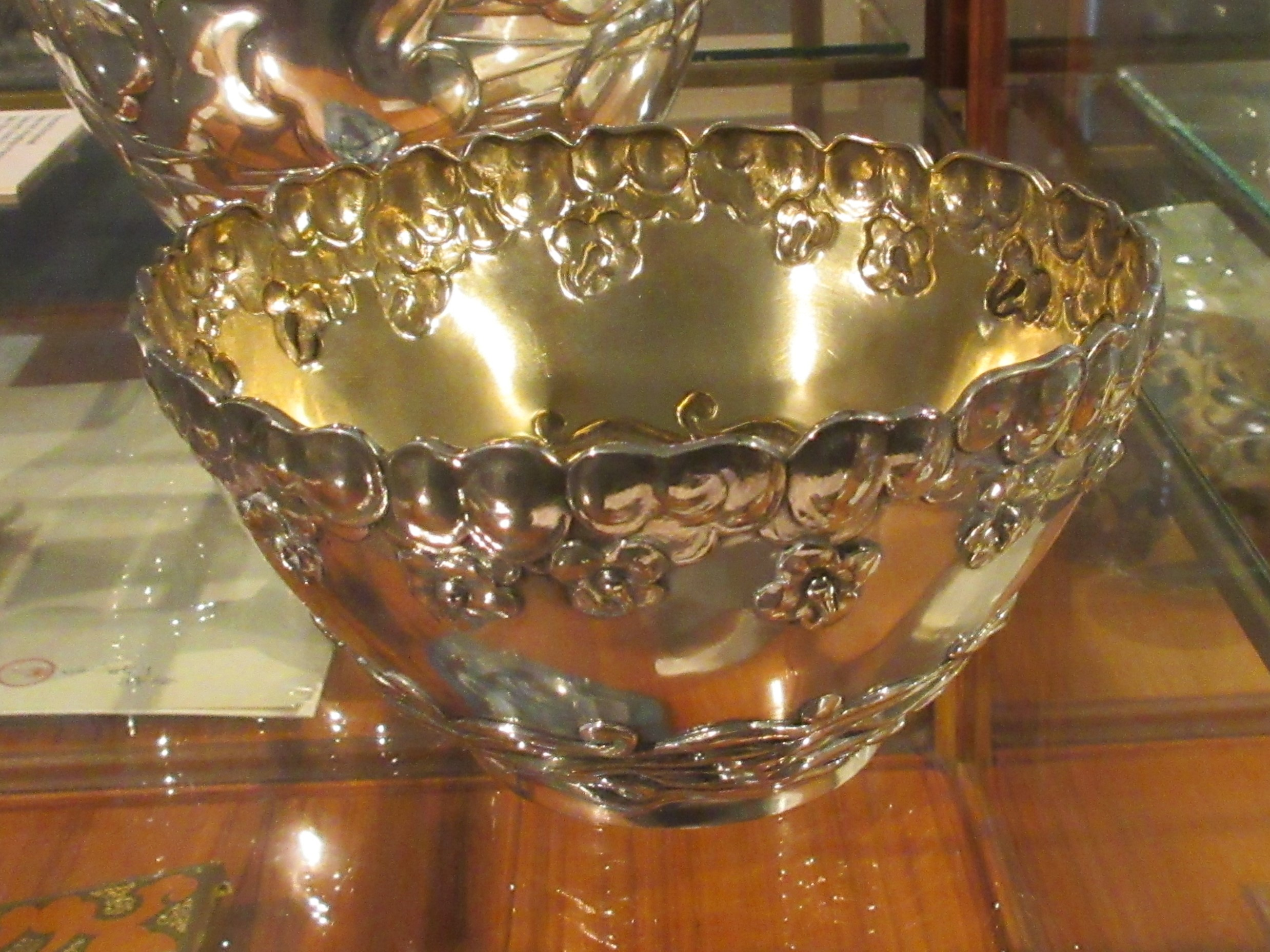 Candy bowl (konfektskål) designed by Thorvald Bindesbøll for A. Michelsen in Copenhagen, Denmark